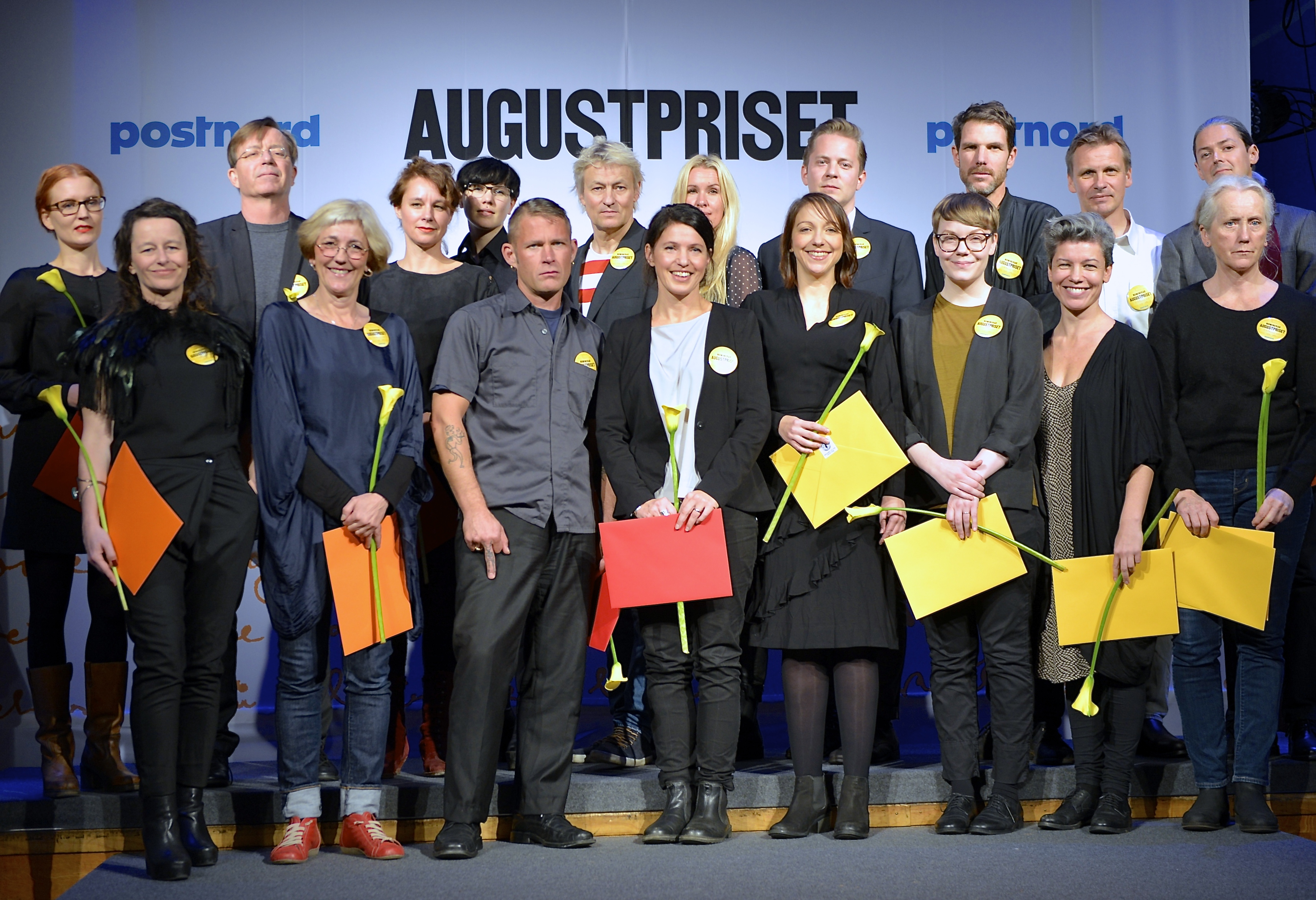 The nominees for the August Prize in the three categories in 2014. From left: Från vänster Ida Börjel, Anna Charlotta Gunnarsson, Steve Sem-Sandberg, Tina Thunander, Sara Stridsberg, Lyra Ekström Lindbäck, Carl-Michael Edenborg, Lars Lerin, Kristina Sandberg, Eva Staaf, Malin Axelsson, Anders Rydell, Klara Persson, Joar Tiberg, Sara Lundberg, Jakob Wegelius, Eva Lindström, Håkan Håkansson.